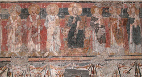 Santa Maria Antiqua Christ on Throne Fresco